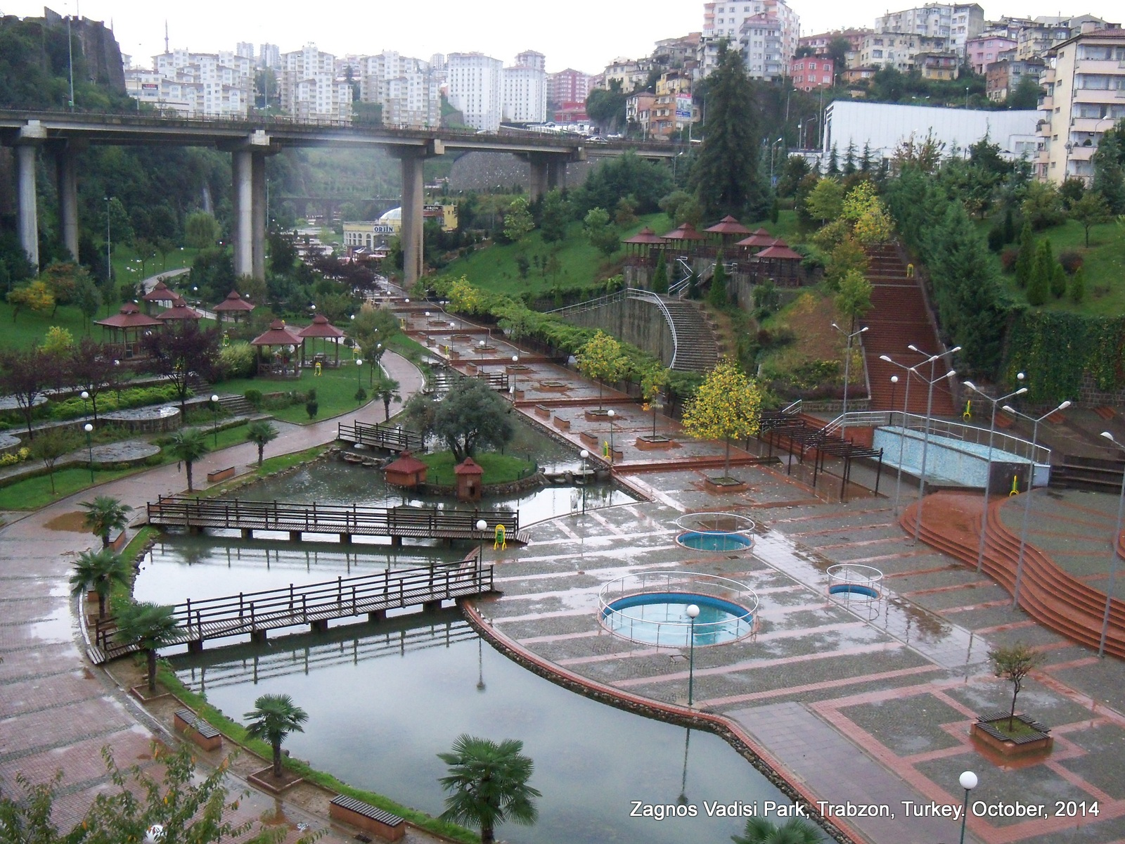 The Zagnos park, view towards the north. Trabzon, Turkey.